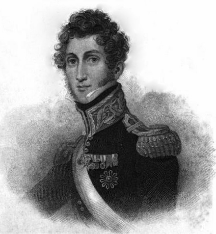 William Miller, known as Guillermo Miller in Latin America, was born in England in 1795 and served in Napoleonic Wars. He then traveled to Argentina, Chile, and Peru serving as general in their wars of independence. He served from 1843 a British Consul to the Kingdom of Hawaii and other islands in the Pacific and died in 1861.